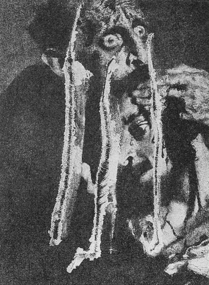 Detail of the picture Ivan the Terrible and His Son Ivan destroyed by Abram Abramovich Balashov. Photograph of 1913.